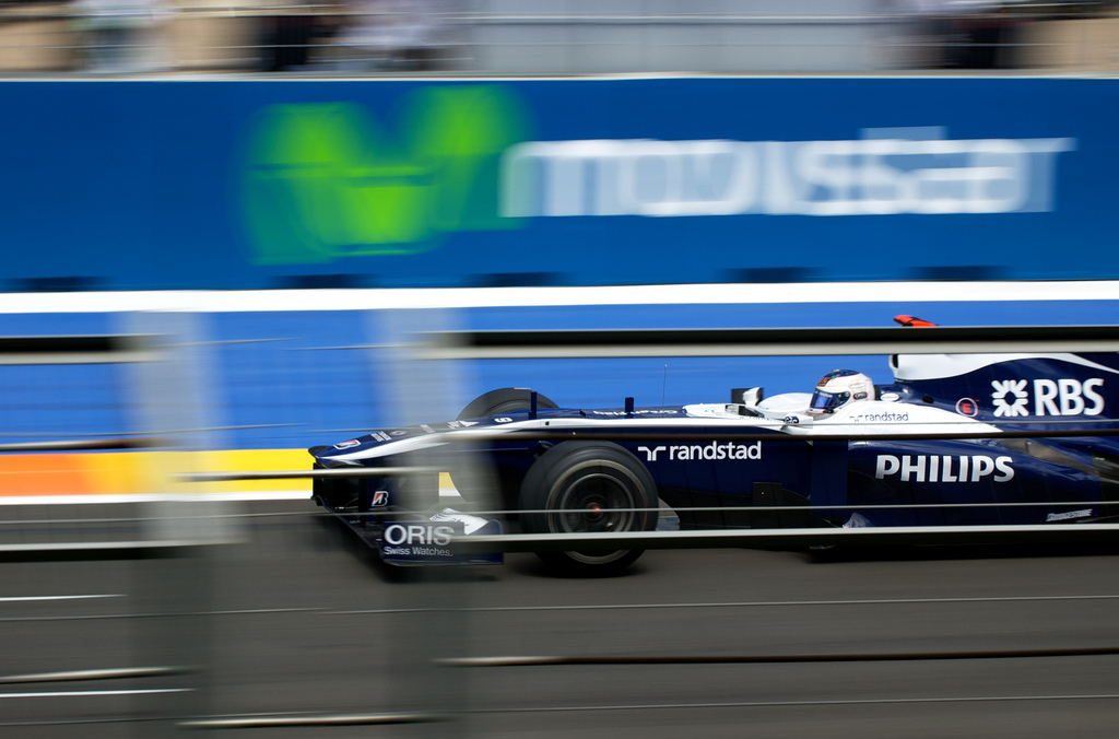 Rubens Barrichello driving for WilliamsF1 at the 2010 European Grand Prix.